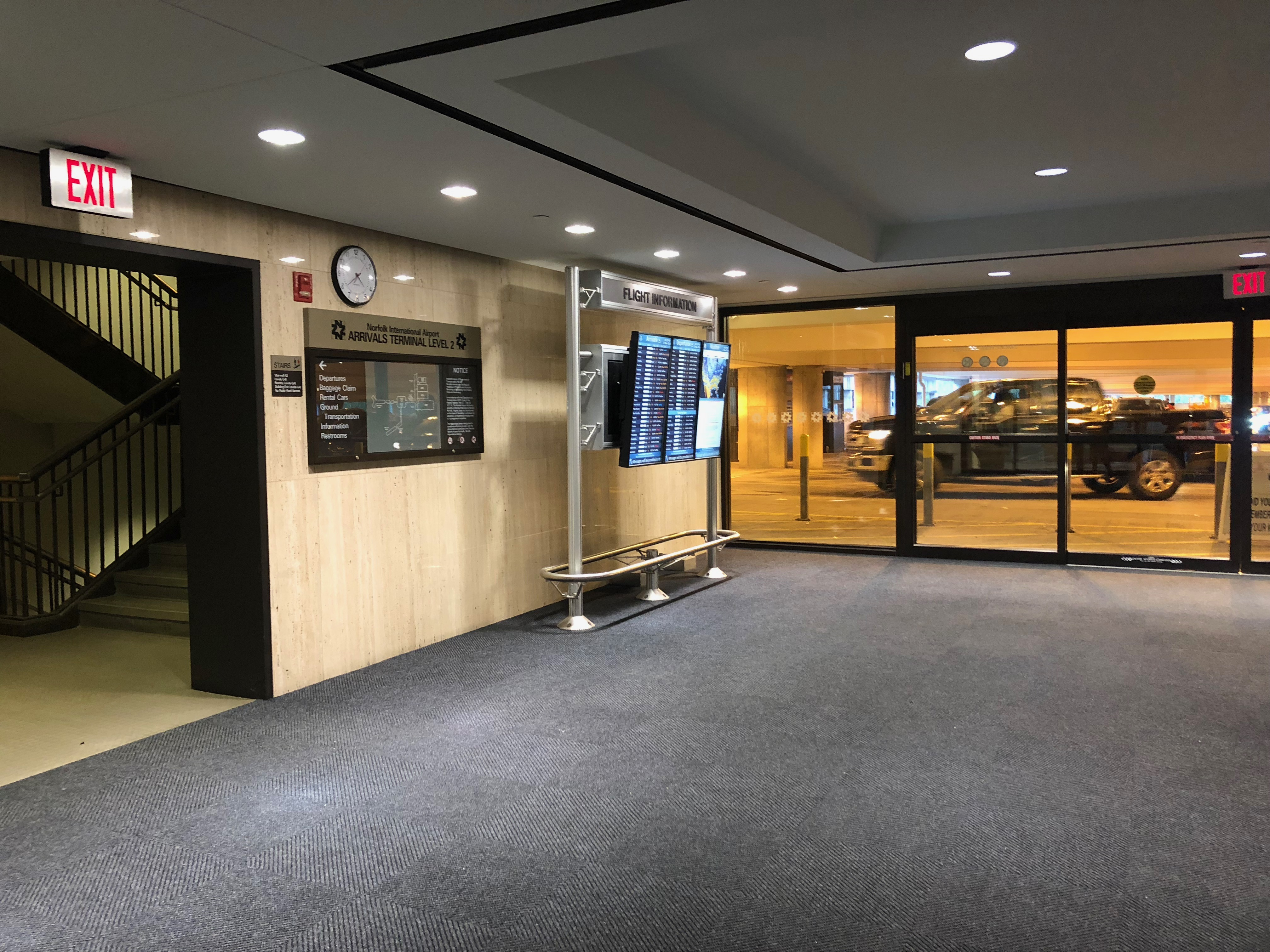 ORF!!